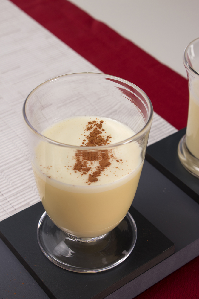 Eggnog